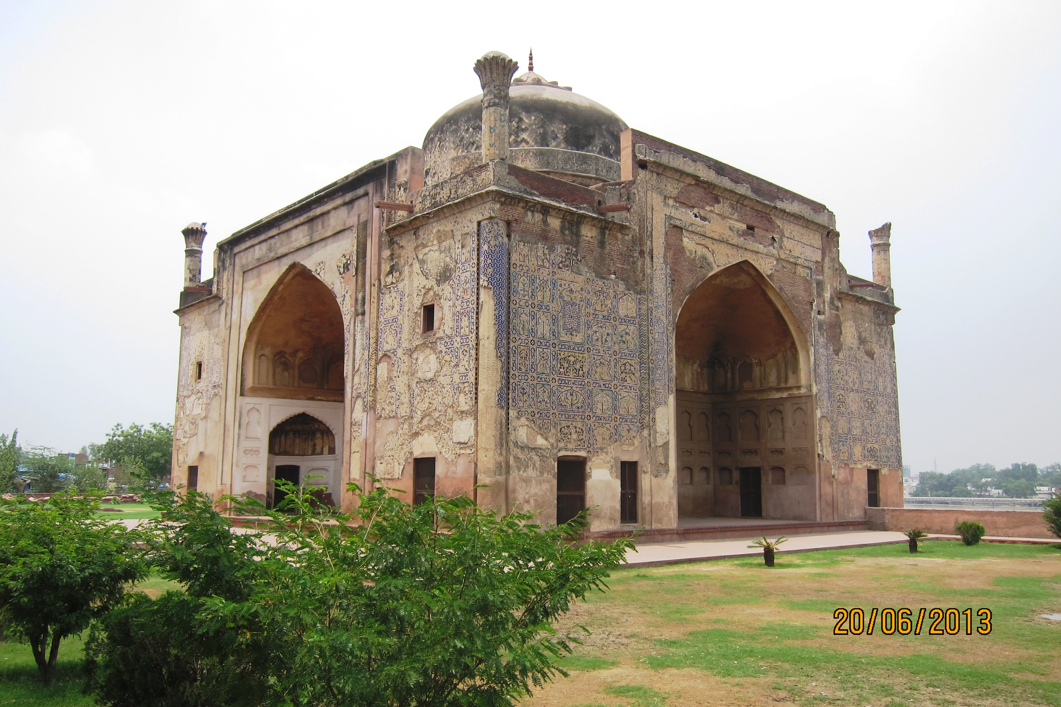 The ruined inlay work at Chini Ka Rauza provides a glimpse of the original grandeur of the monument